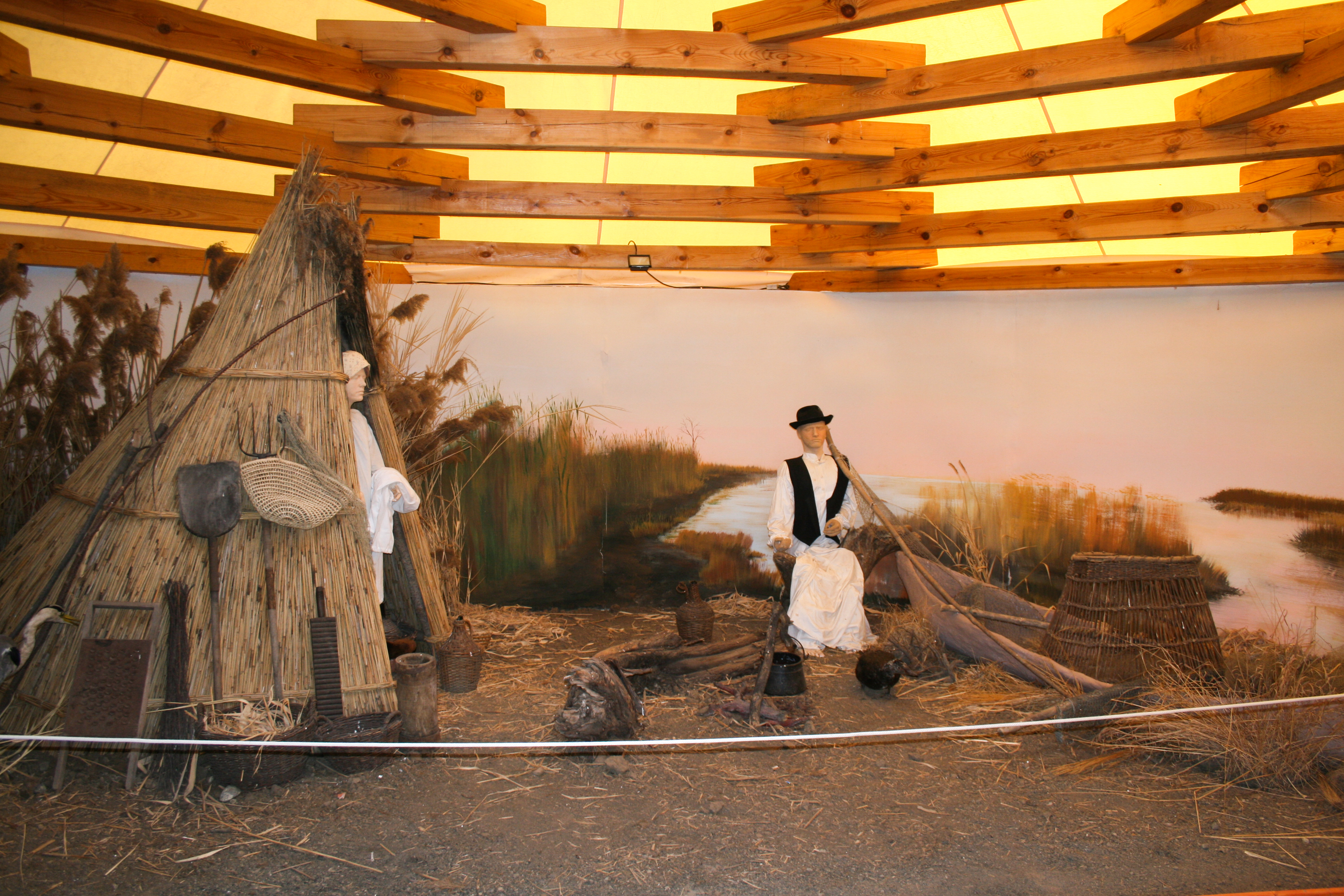 Diorama in the museum